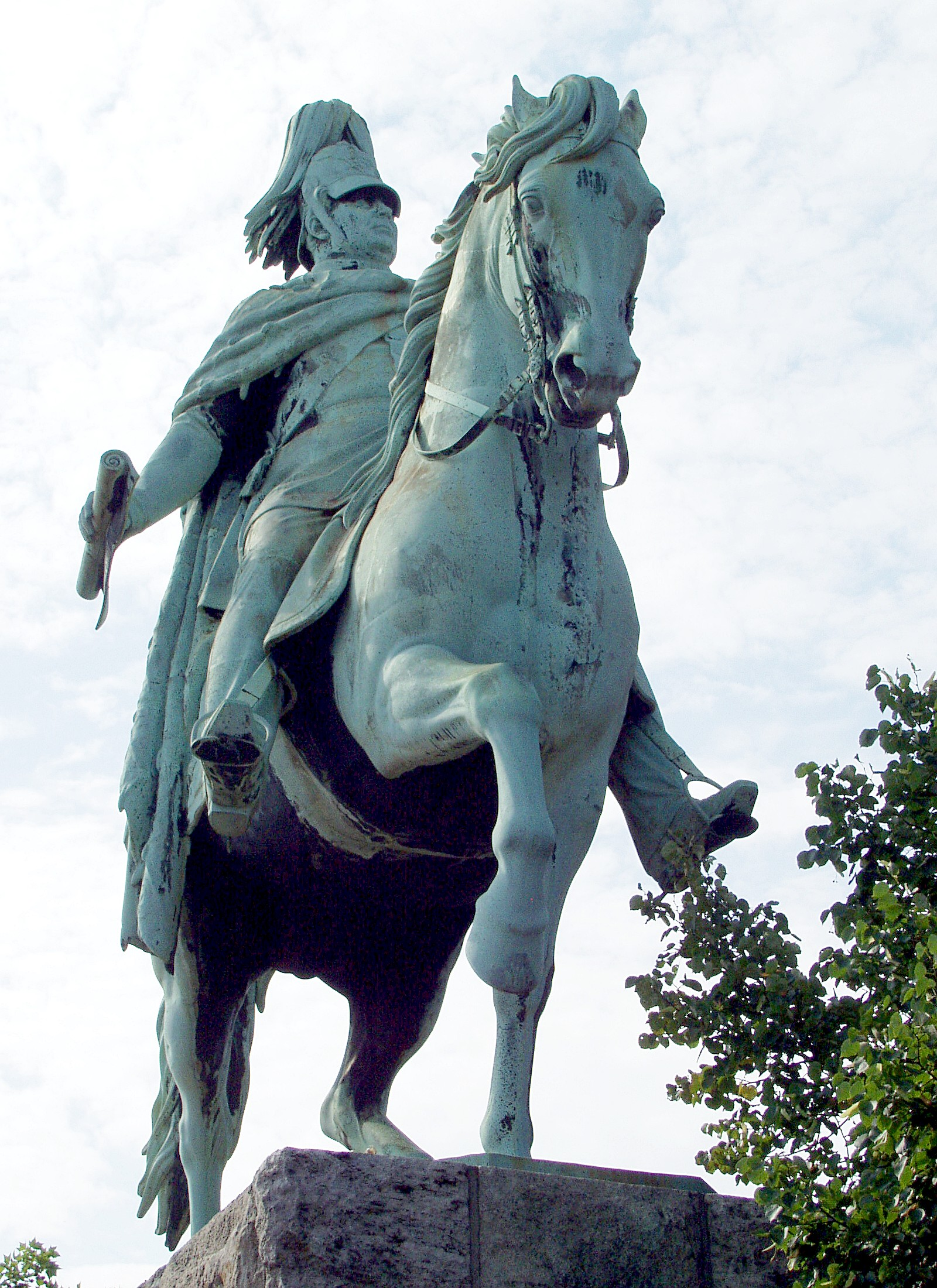 Statue of Frederick William IV of Prussia at the "Hohenzollernbrücke" in Cologne, Germany, sculpted by Gustav Blaeser.